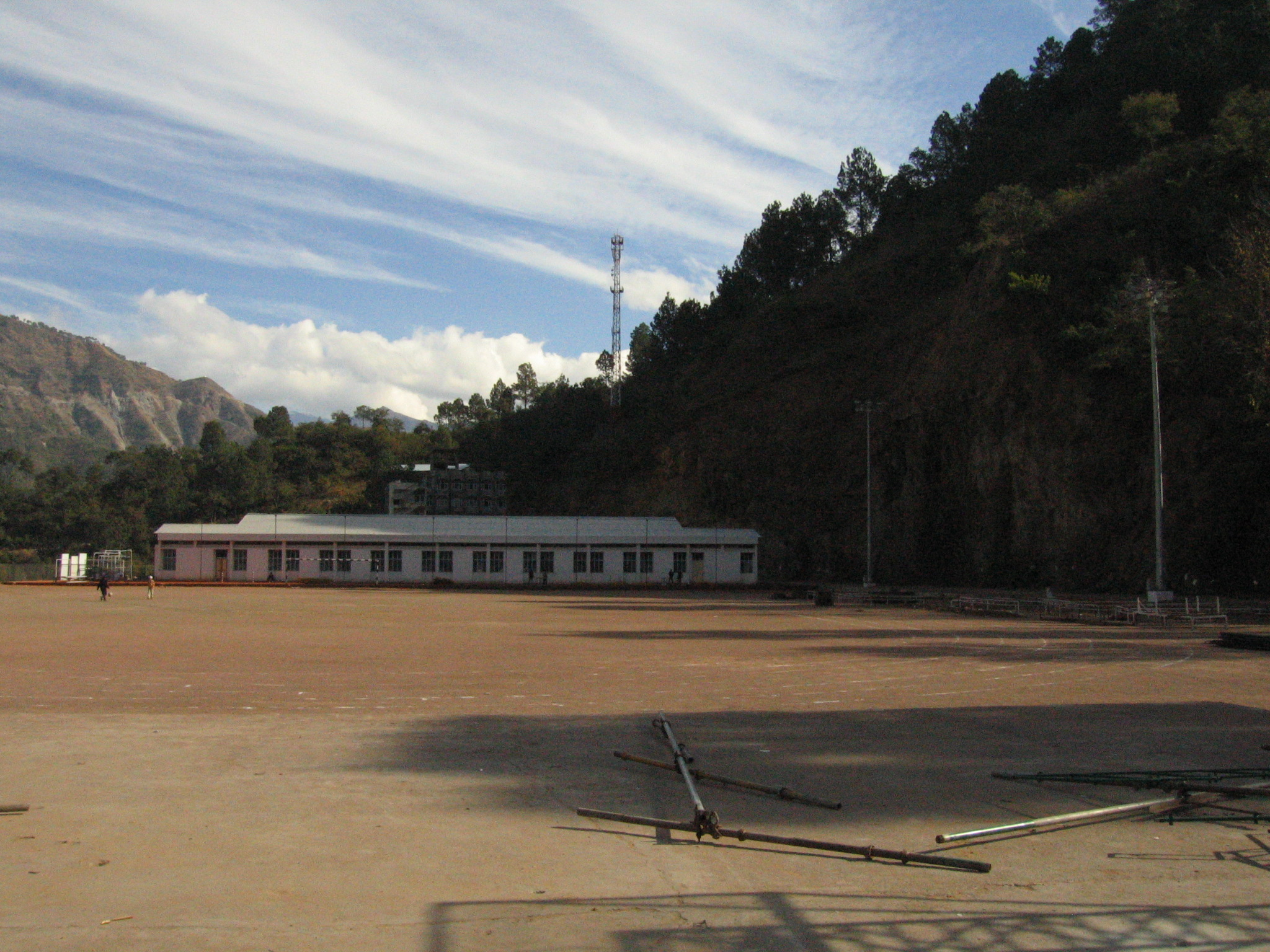 Baru Sahib Ground